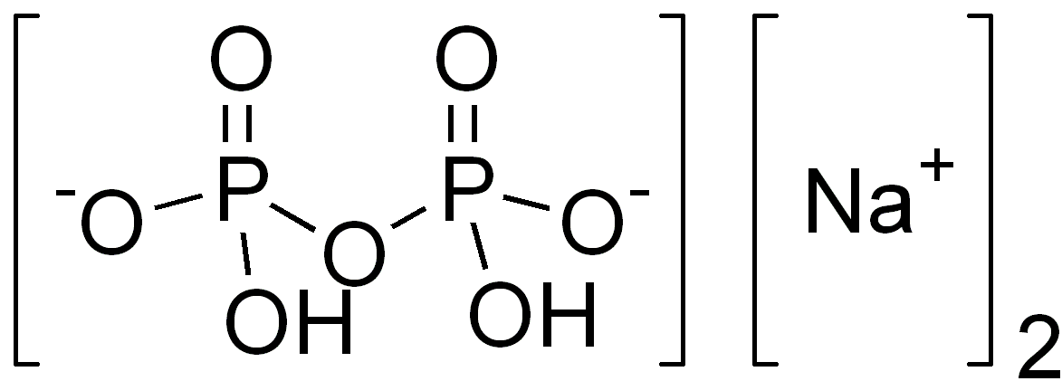 chemical structure of disodium pyrophosphate